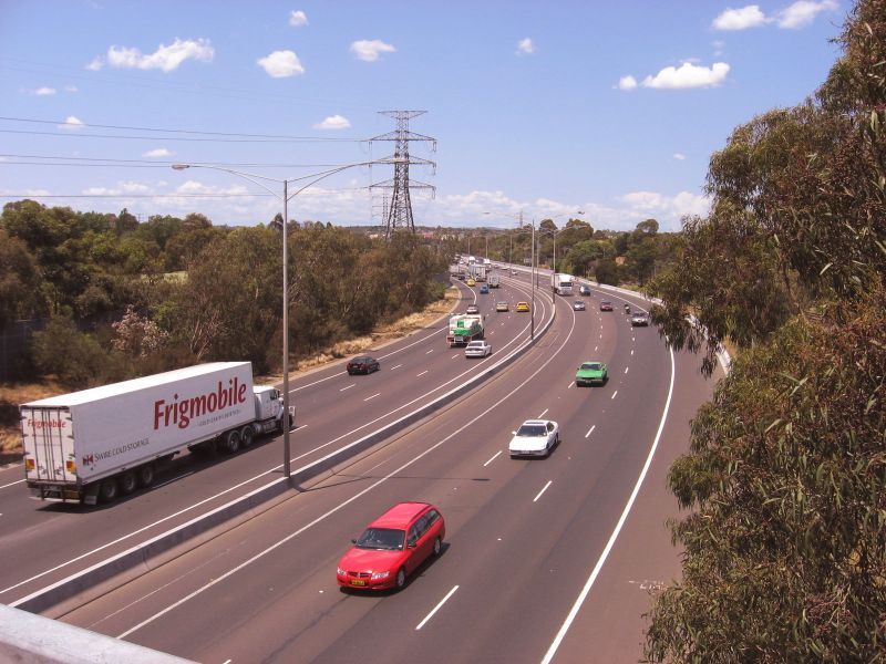 Monash Freeway at East Malvern Station. January 2007. Photo by me.